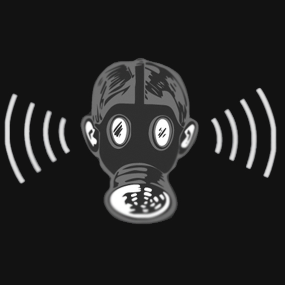 Transcoder mask logo